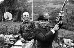 Pascal Thurre and Petre Roman